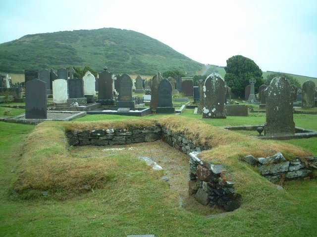 One of three Keeills in this churchyard, Isle of Man. A Keeill is a primitive chapel dating from 6th to 11th centuries.